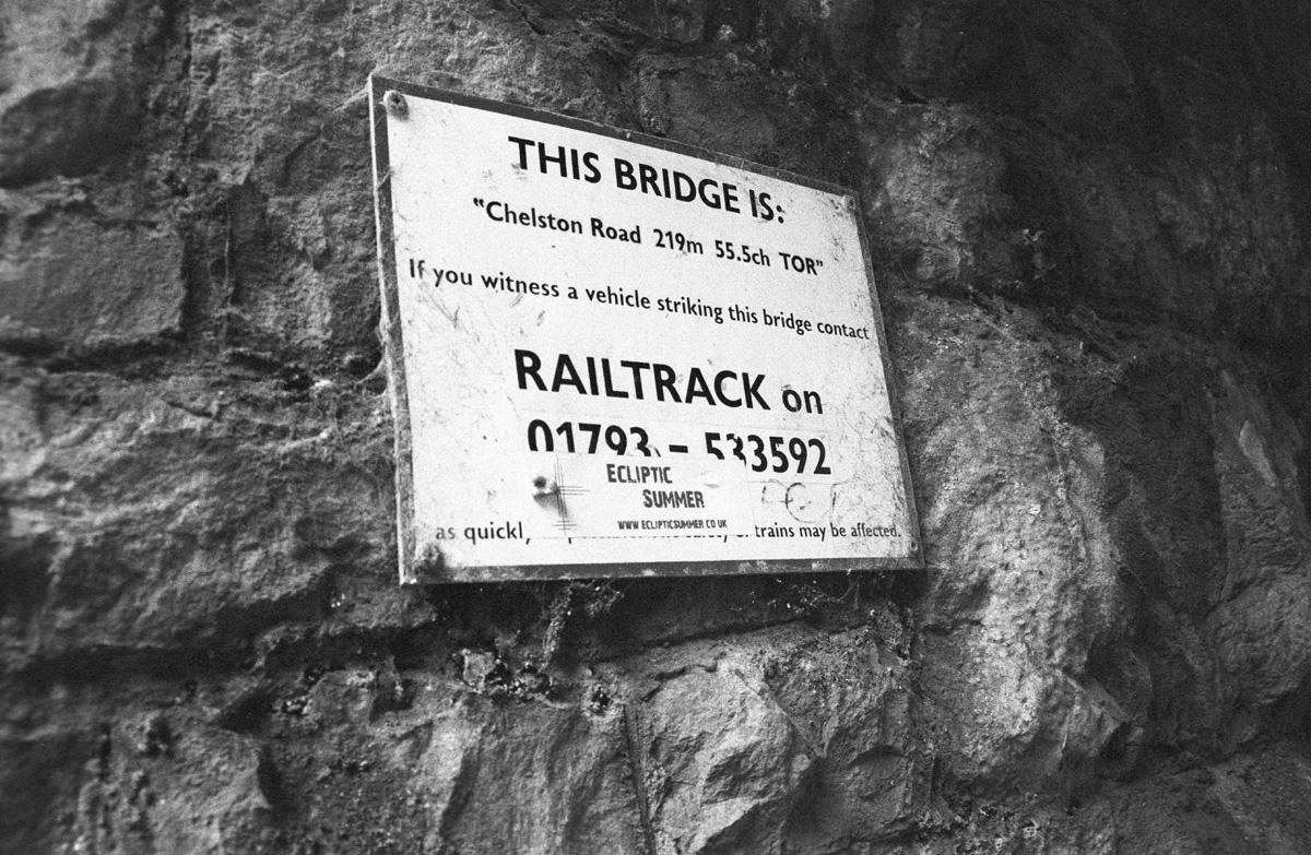 Photograph of a sign identifying a bridge in Torquay, UK